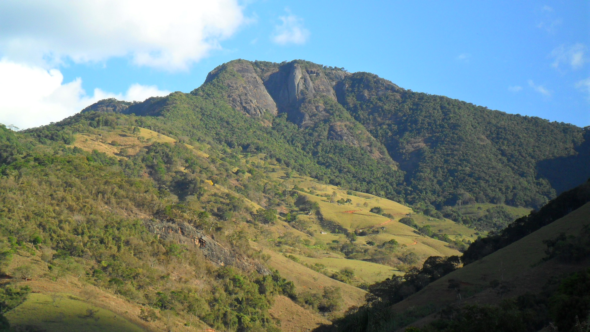 Santa Rita Mountain in Itajubá, Minas Gerais, Brazil